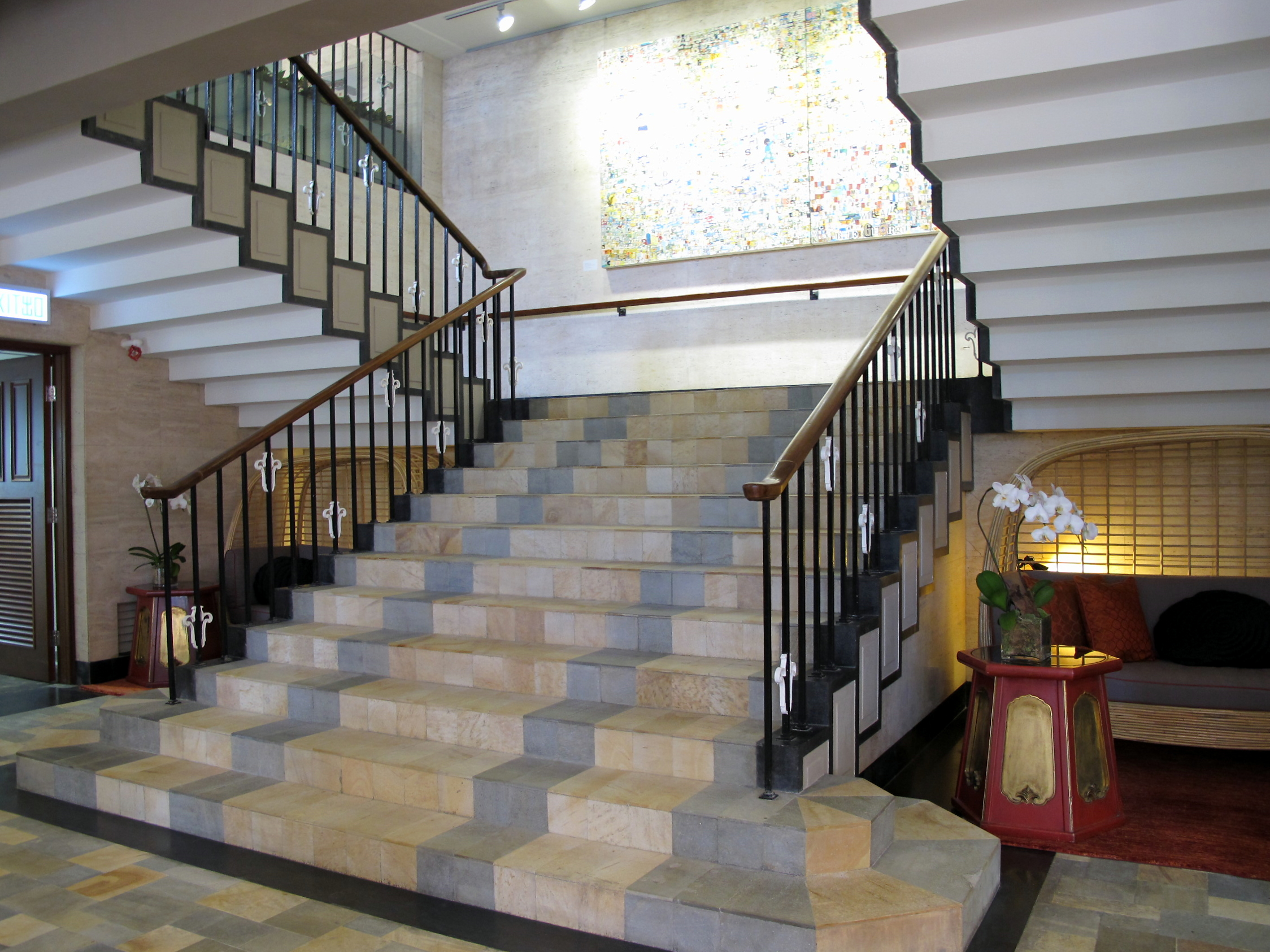 North Kowloon Magistracy Lobby Stairs